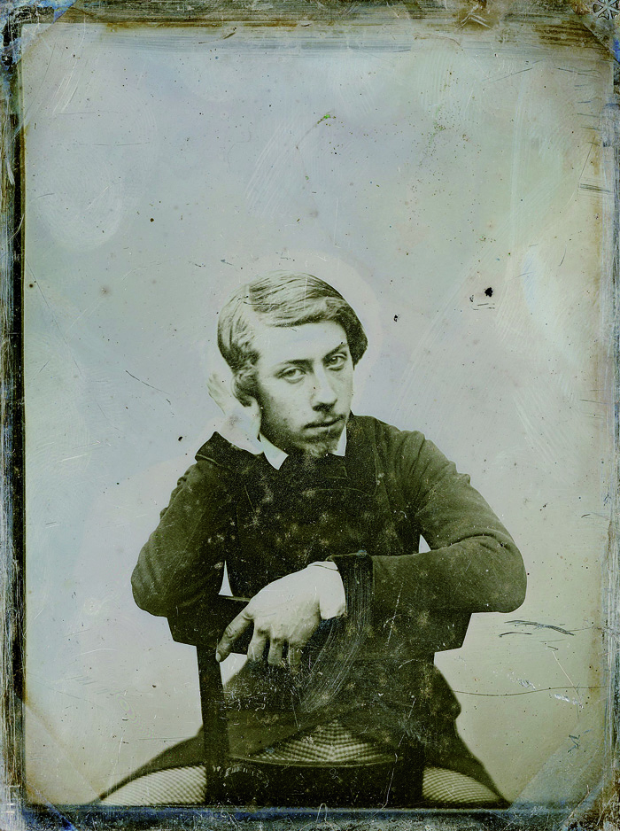 Self-portrait by French photographer Stanislas Ratel